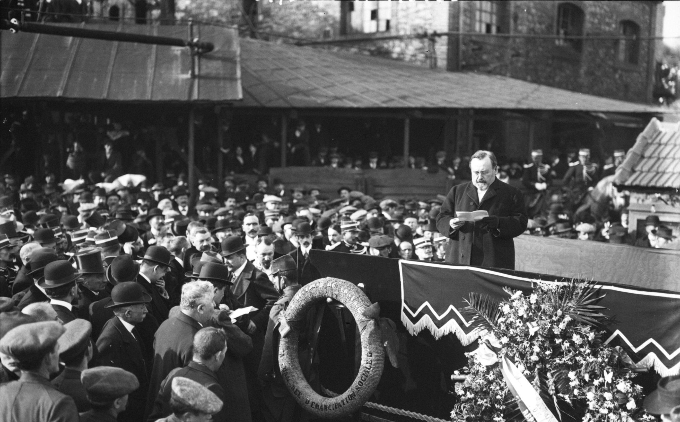 A picture of the burial of 24 miners in Sant Martin de Valgalga (Occitania)